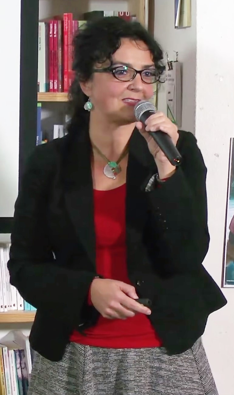 Assaggi Library 510 subscribers IN THE SECRET ROOMS - Looks on the frontiers of research The secret rooms are the places of research that people find inaccessible. We want to open the doors of these rooms and tell everyone what science is all about today. V meeting - Wednesday 25 November 2015 at 19:00 with: - Paolo Barucca, researcher in financial mathematics, Scuola Normale Superiore of Pisa - Roberto Caminiti, neurophysiologist, Sapienza University of Rome - Catalina Oana Curceanu, INFN National Laboratories of Frascati Moderator: Giorgio Sestili Titles of the speeches and abstracts at this link: http: // ...